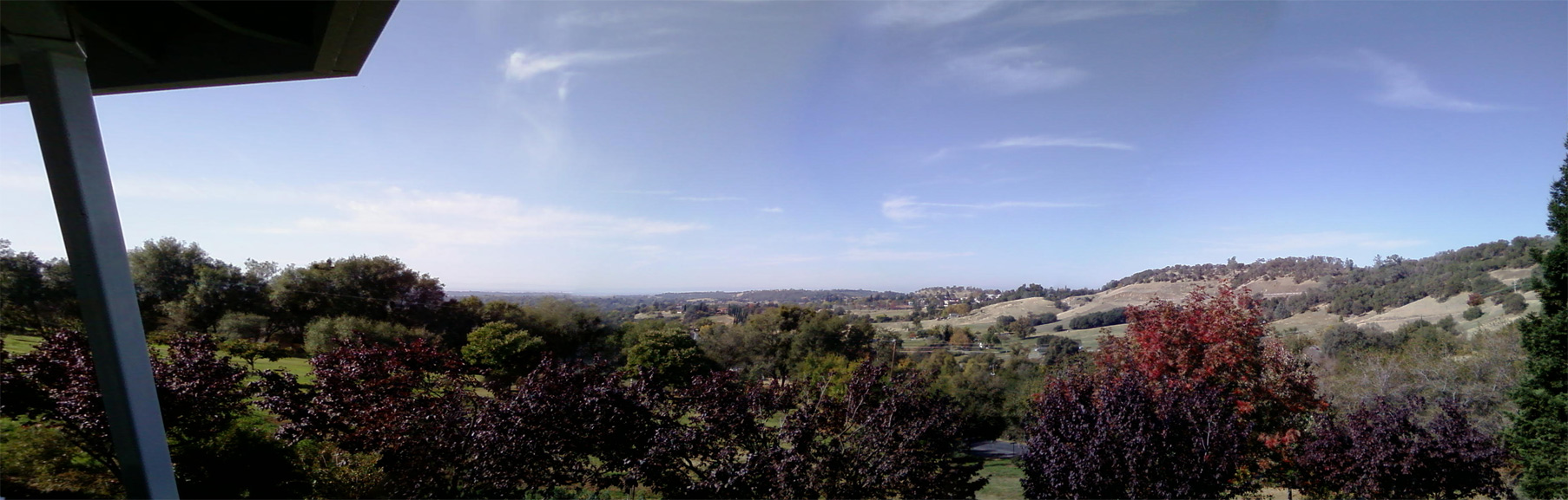 Panorama of several images taken displaying the local geography of Auburn, CA, USA